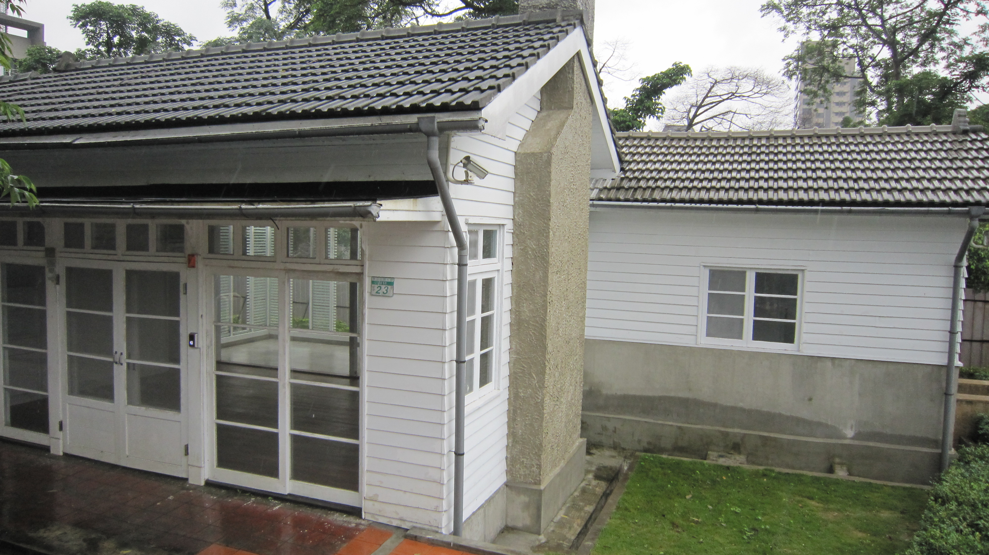 天母白屋(美軍宿舍Tianmu White House, Tianmu,Taipe (Former U.S. Military Advisors' Residence) 美國前軍事顧問的公寓